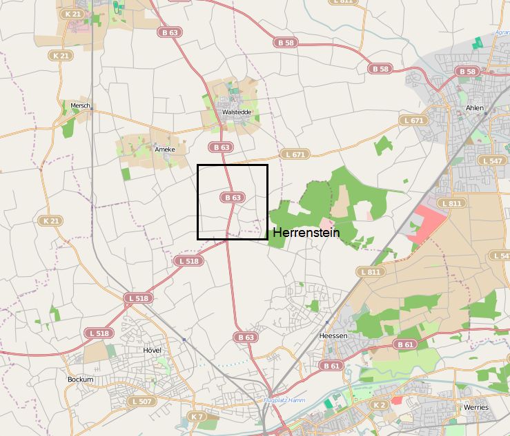 Location of "Herrenstein" on a OSM-Map